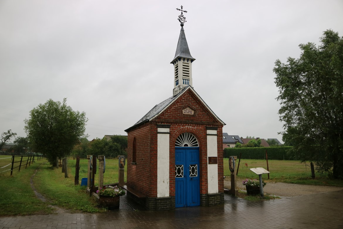 The Boonhof Chapel in Sint-Amands Photo: Inventaris Onroerend Erfgoed